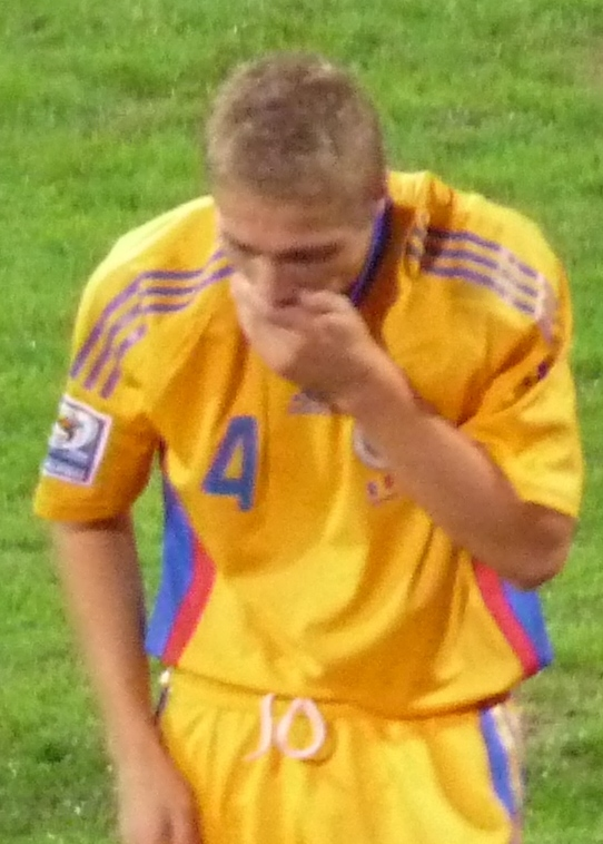 Mihai Roman playing for the national football team of Romania against Austria on the Steaua stadium in Bucharest